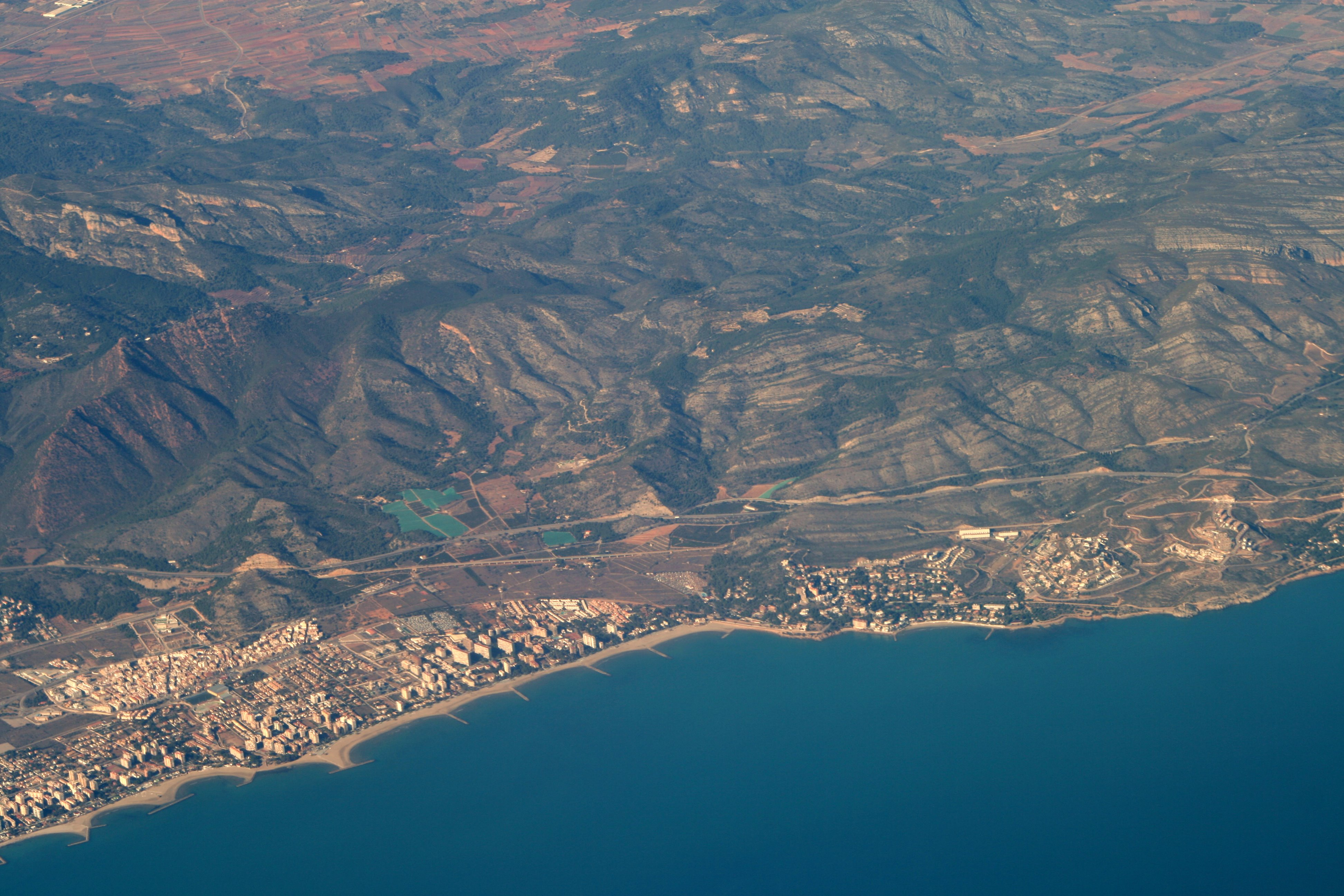 Benicàssim and surrounding parts in the north of Castelló de la Plana province (13 km north of the provincial capital), Valencian Community, Spain.